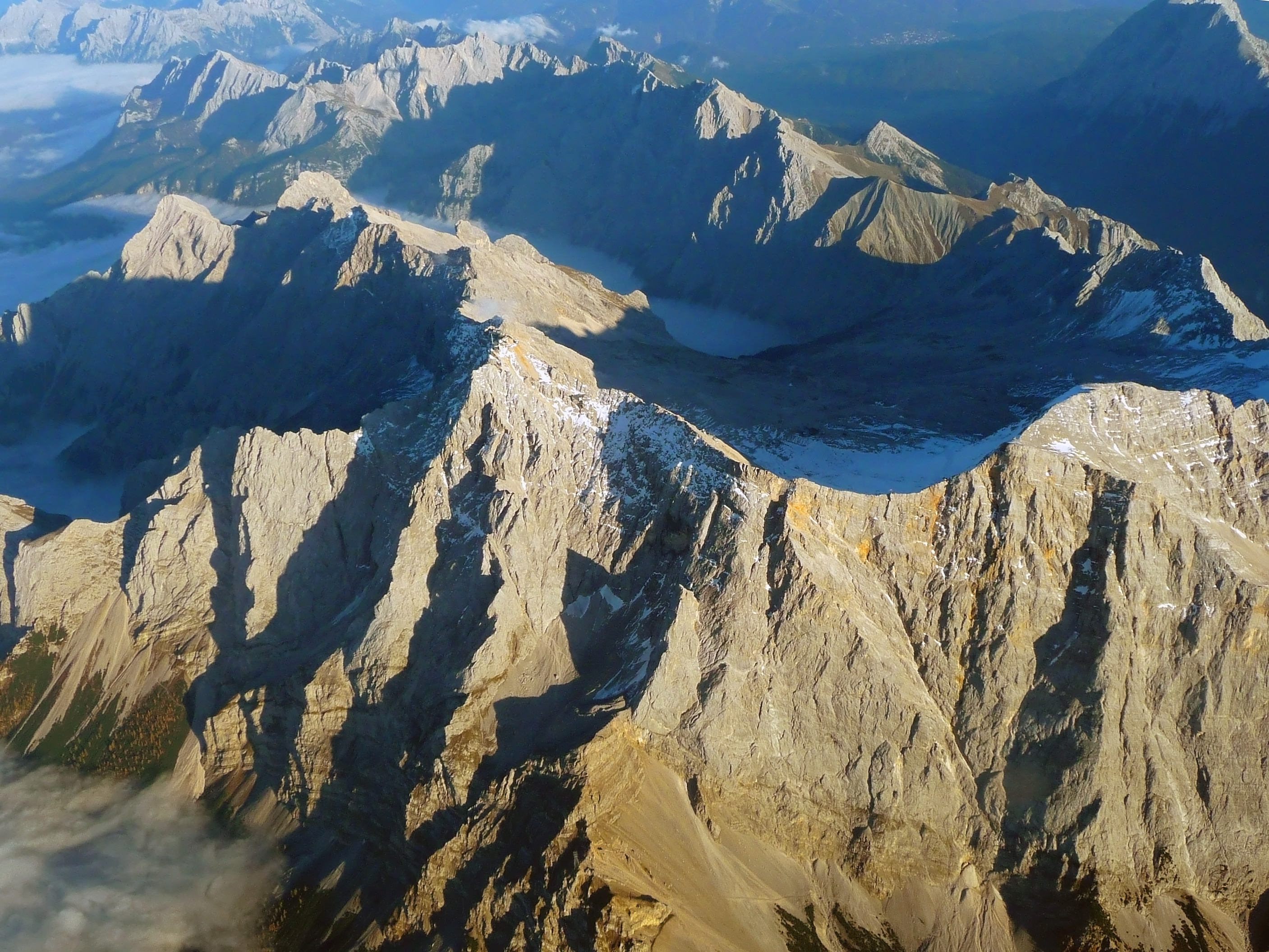 The "Zugspitze", the highest mountain in Germany as seen from an aircraft. View from West, with mountains in Wetterstein around and valley Reintal with fog or clouds from above.